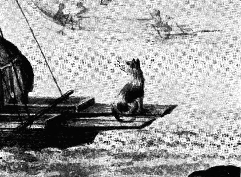 "Double canoes. Tipaerua." Society Islands, probably during Captain Cook's first voyage. From the British Museum's collection of drawings by A. Buchan, S. Parkinson and J. F. Miller, made in the countries visited by Captain Cook in his first voyage (1768-71), also of prints published in John Hawksworth's Voyages of Biron, Wallis and Cook, 1773, as well as in Cook 's second and third voyages (1762-5, 1776-80.